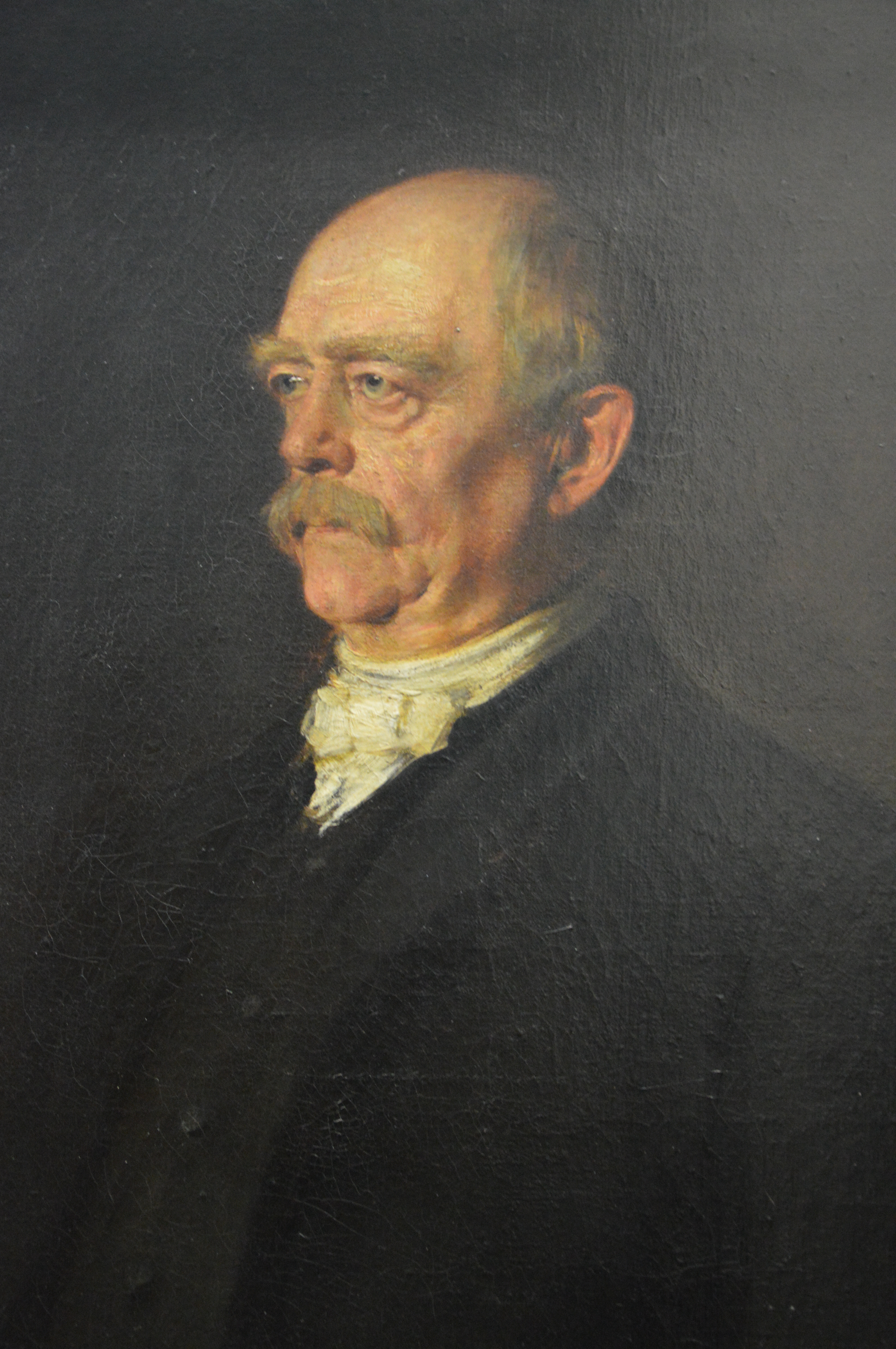 Detail of Franz von Lenbach's 1884 portrait of Otto von Bismark at the Alte Nationalgalerie, Berlin.